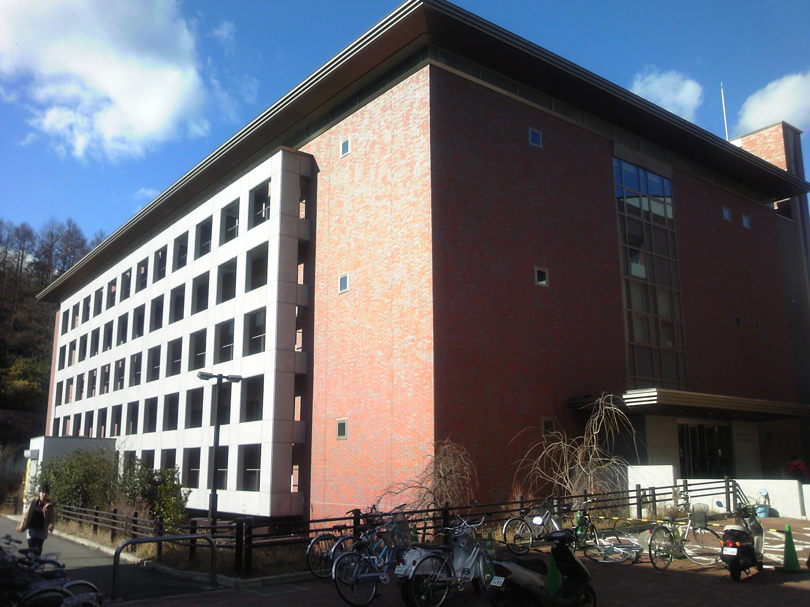 The Liberary of Tsuru University